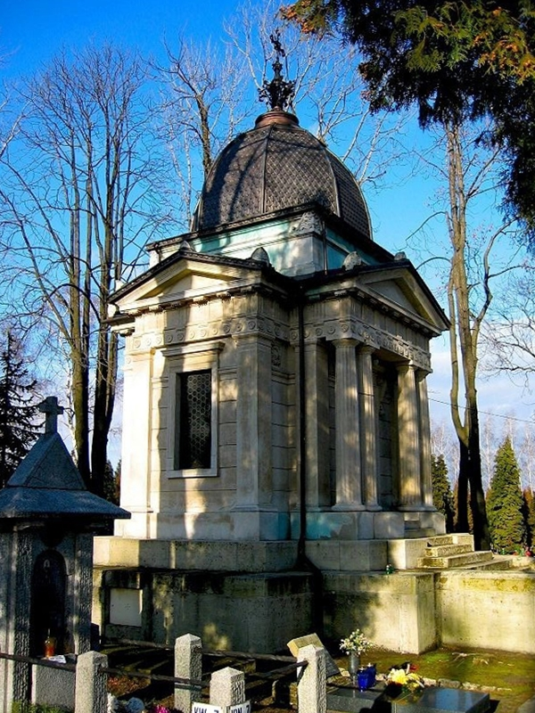 The Loewenfeld Mausoleum in Chrzanów